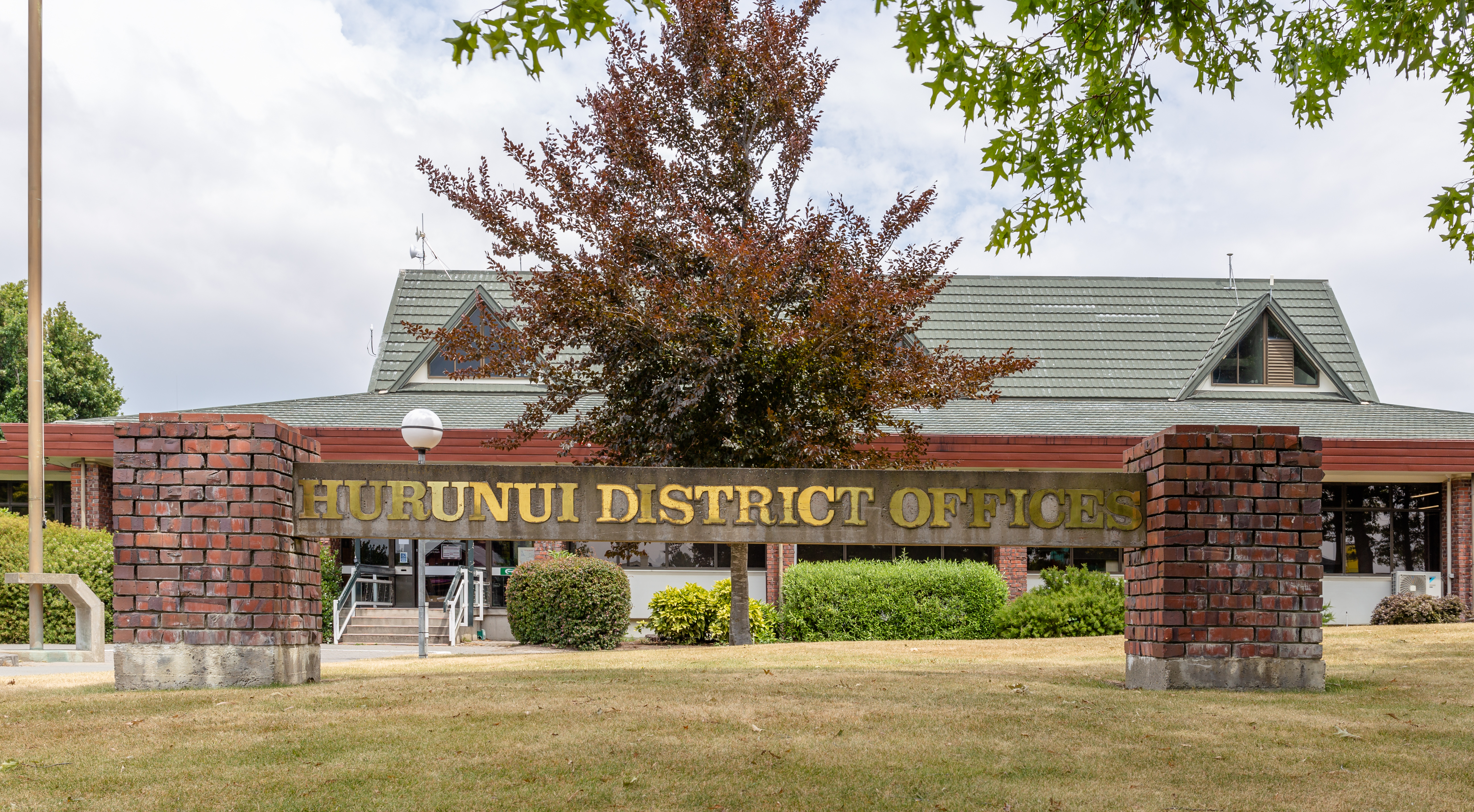 Hurunui District Office, Amberley, New Zealand